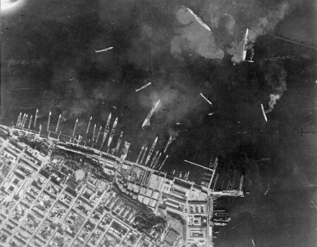 TARANTO, ITALY. 1940-11. AERIAL VIEW SHOWING AFTERMATH OF ACTION AGAINST THE ITALIAN FLEET IN TARANTO HARBOUR. NOTE THE TWO DAMAGED CRUISERS IN THE INNER HARBOUR. (DONOR C. OLIVER, ORIGINAL ALBUM HELD IN AWM ARCHIVE STORE) (USE THIS IN PREFERENCE TO P0090/109/090)